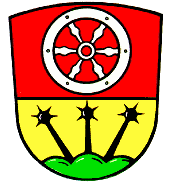 Coat of Arms of Schöllkrippen